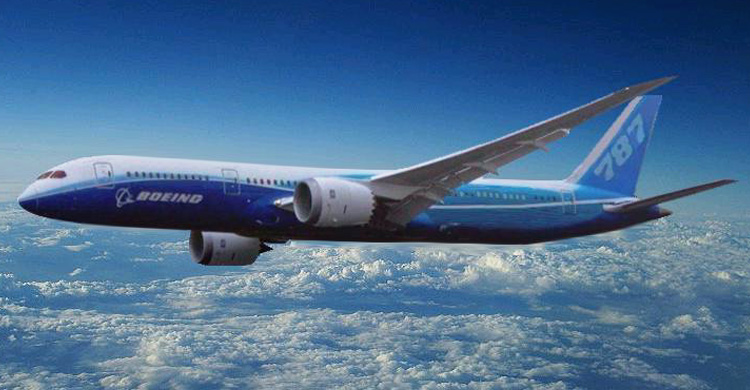 Artist impression of Boeing 787-9 Dreamliner.